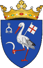 Flag/CoA of a Moldovan locality